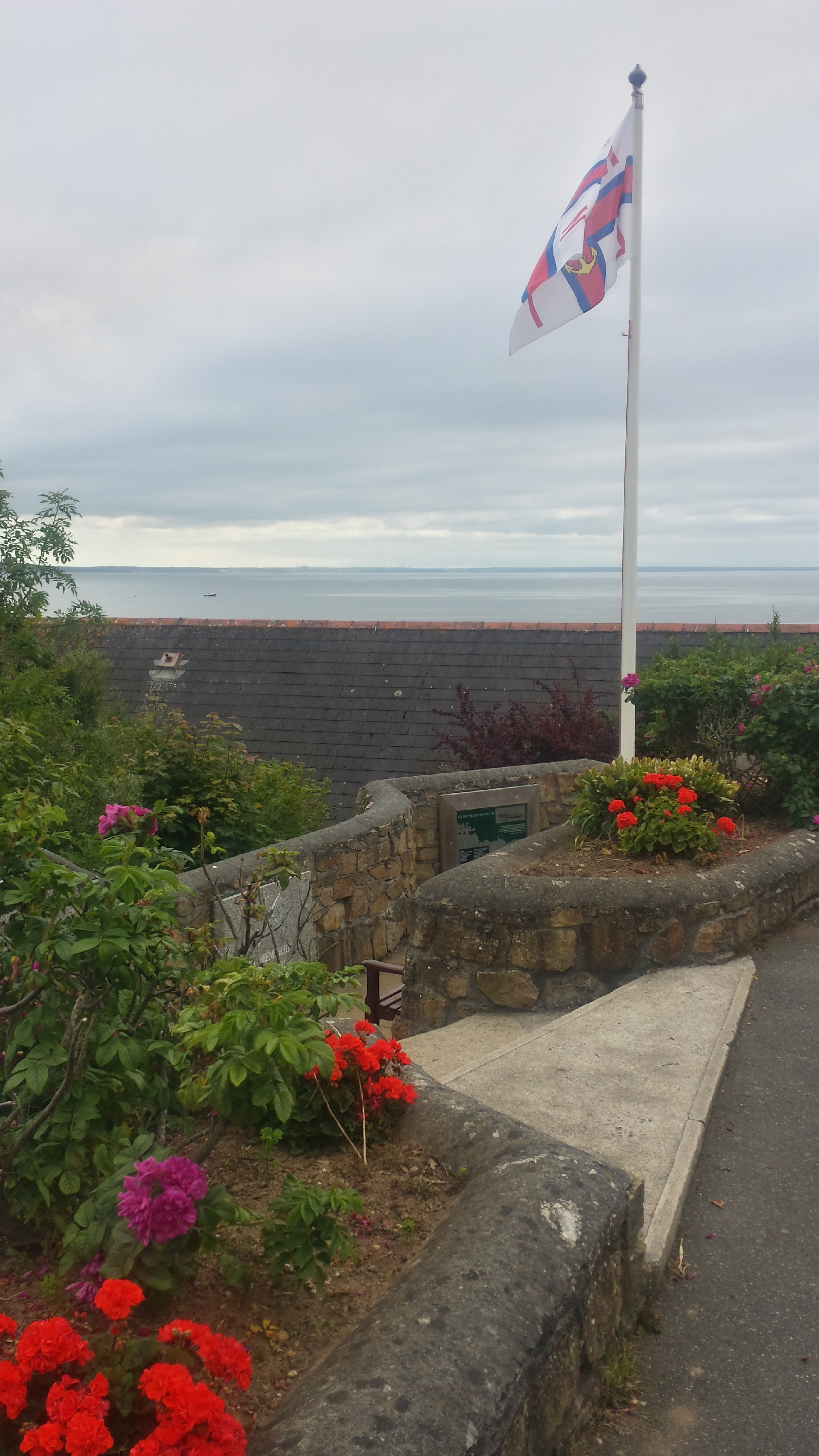 The Penlee Memorial Garden, commemorating the loss of the crew of the lifeboat Solomon Brown in 1981. The roof of the original Penlee lifeboat house, used at the time of the disaster, can be seen in the background.